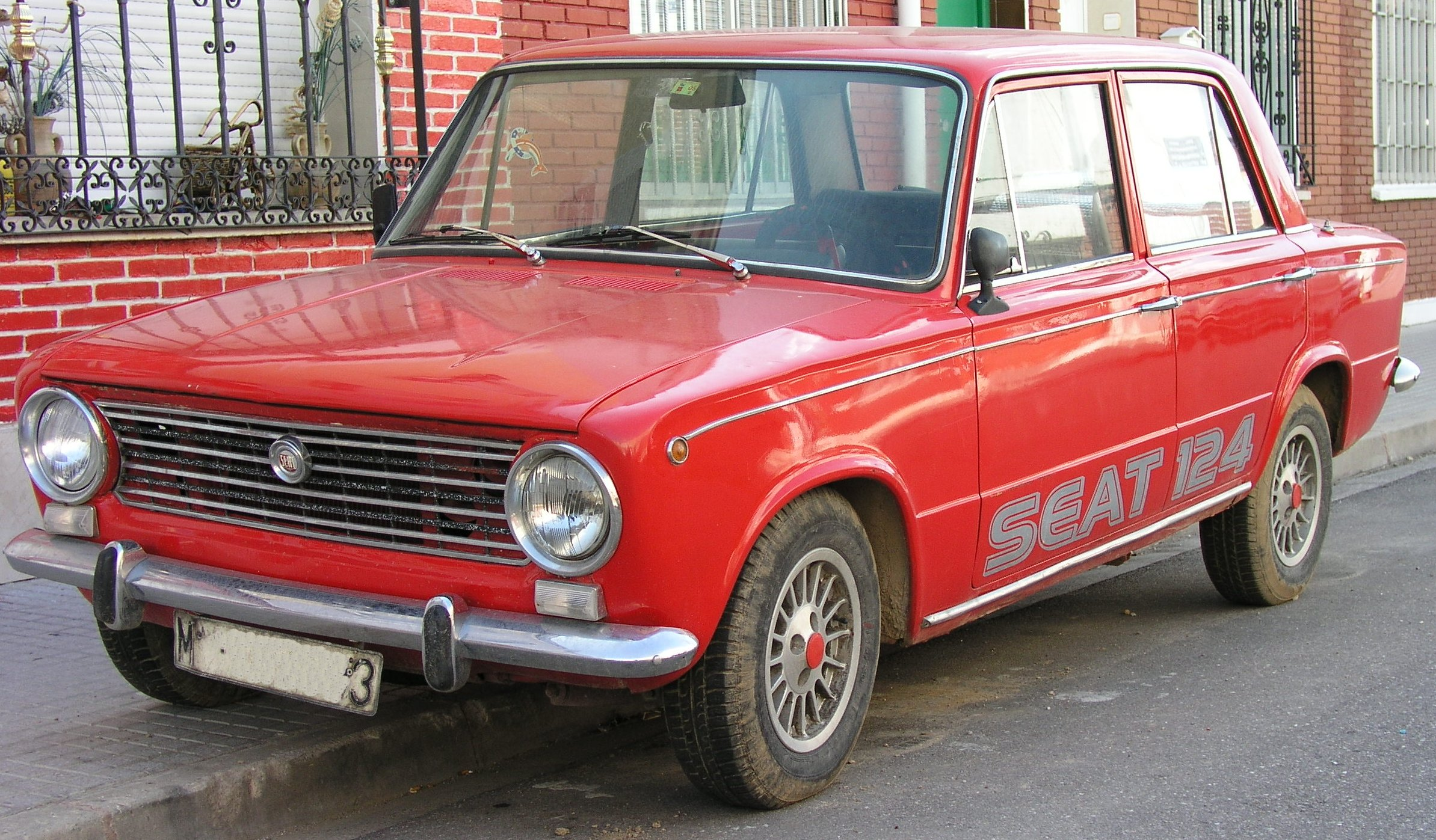 SEAT 124 in Spain. Manufacture date: Circa 1970. Non-factory wheels and stickers. Picture year: 2006.